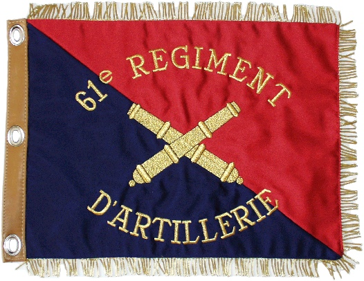 Revers du fanion